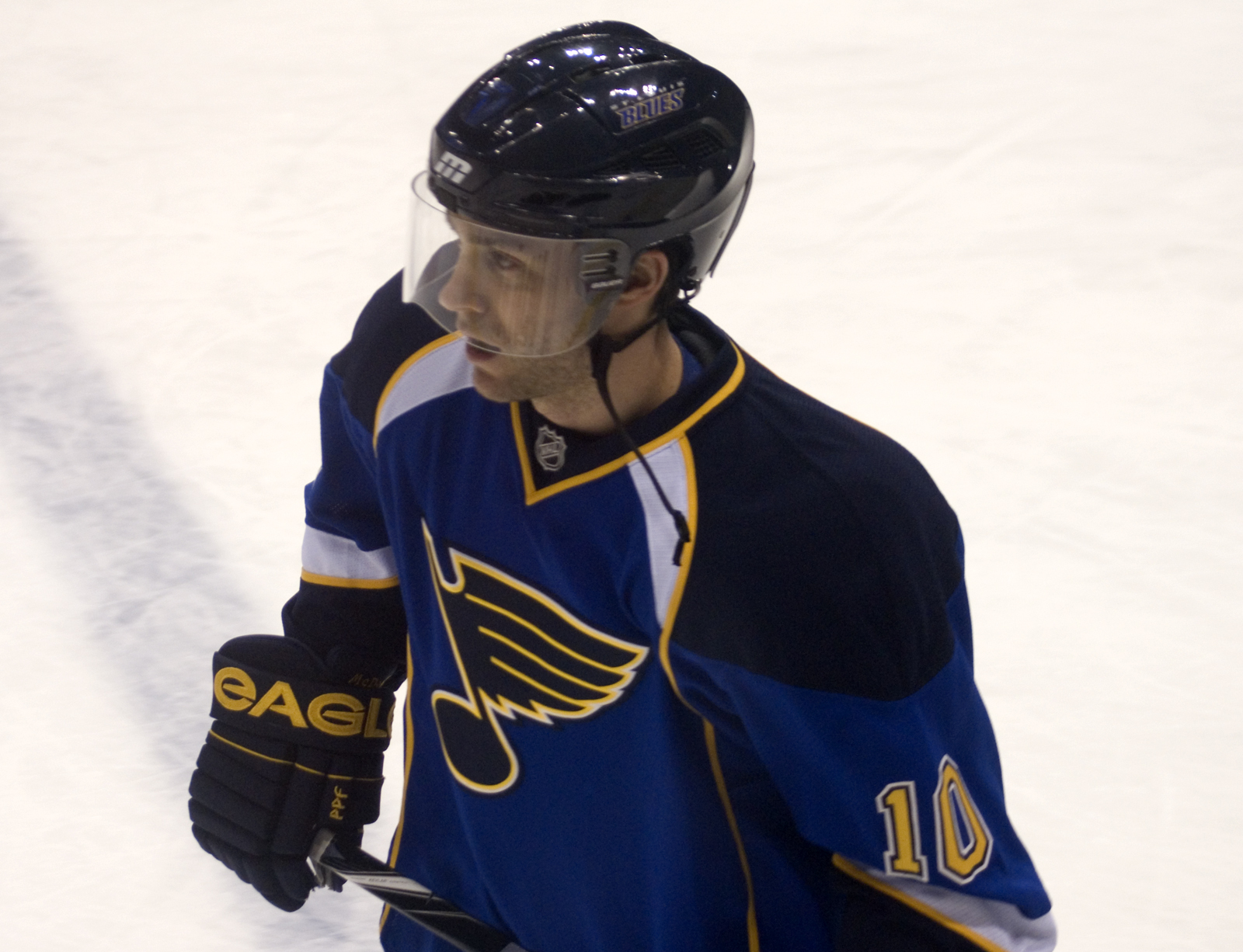 ERI_5058 St. Louis Blues vs. Colorado Avalanche - National Hockey League - 2010–11 NHL season. Erik Johnson and Jay McClement returned for the first time to face their former team. The Avs won. Photo taken by Sarah Connors on February 22, 2011. This photo also appears in Sarah Connors Flickr set "Blues vs. Avs, 2/22/11" (Set of 86).